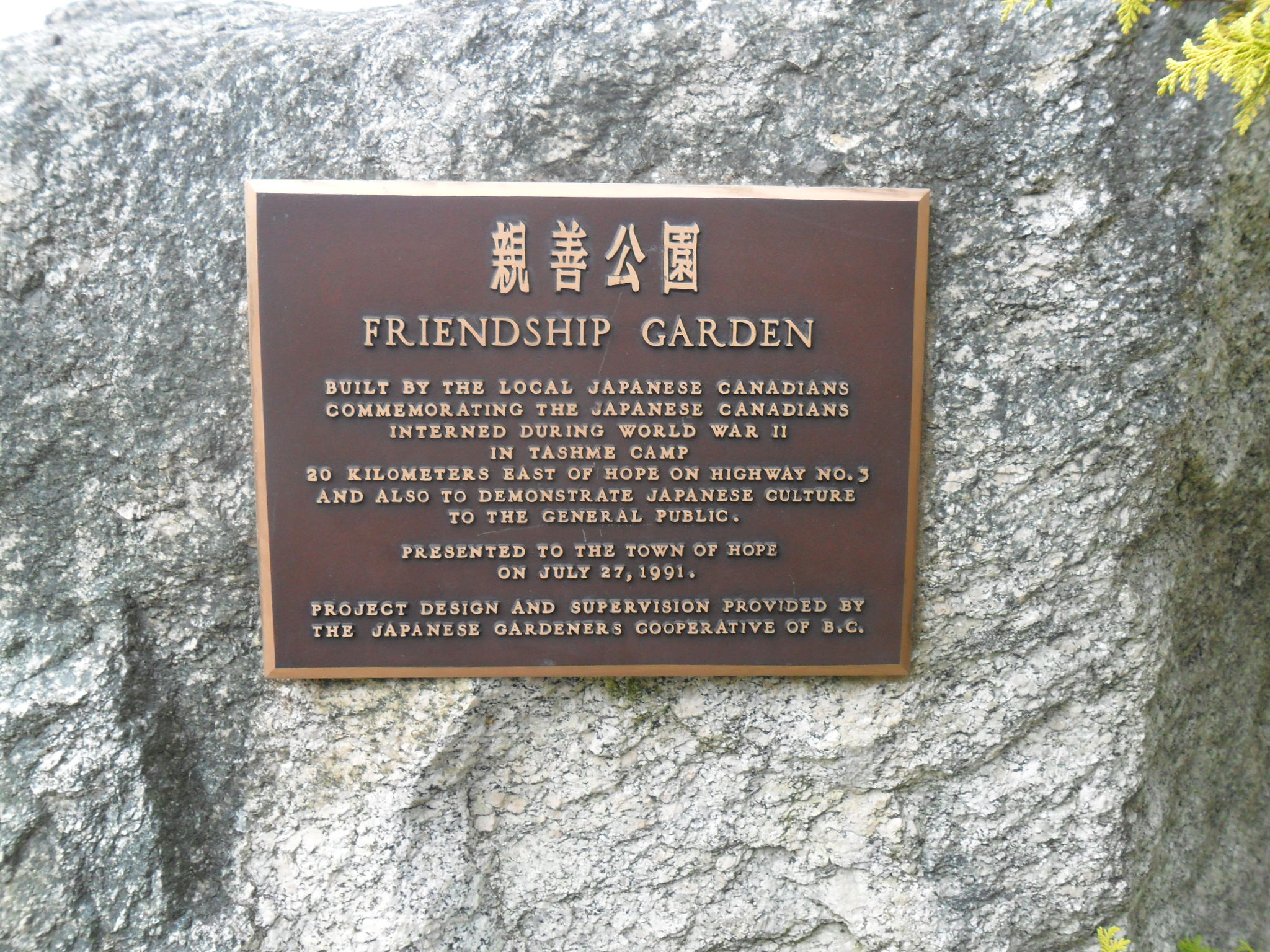 A plaque at the Friendship Garden in Hope, British Columbia, explaining its significance.